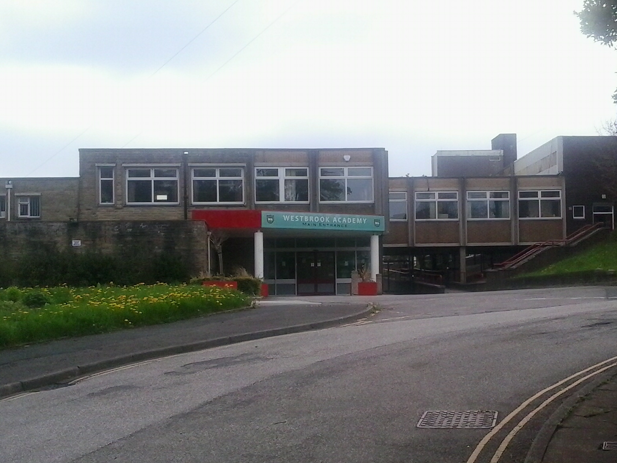 Picture of Saint Catherine's school re-branded for filming